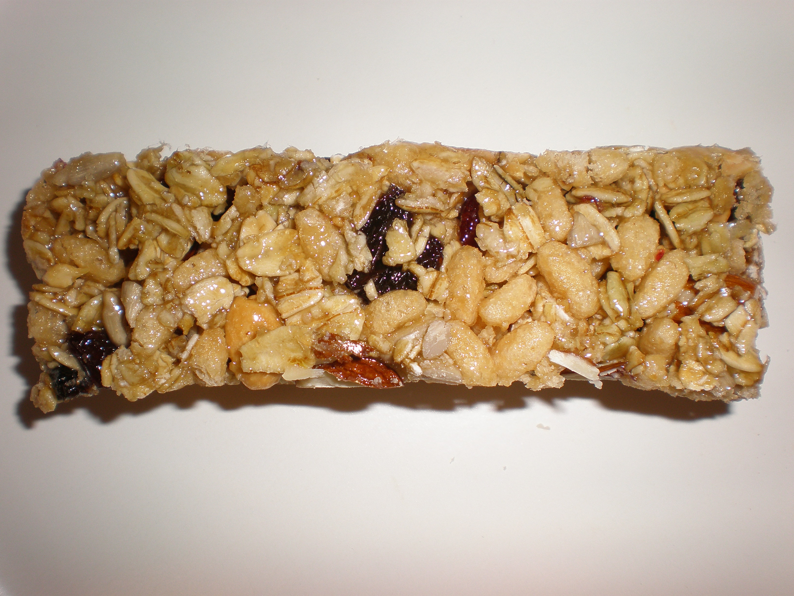 A Nature Valley Chewy Trail Mix Bar, fruit & nut flavor. Ingredients: almonds, raisins, peanuts, cranberries.